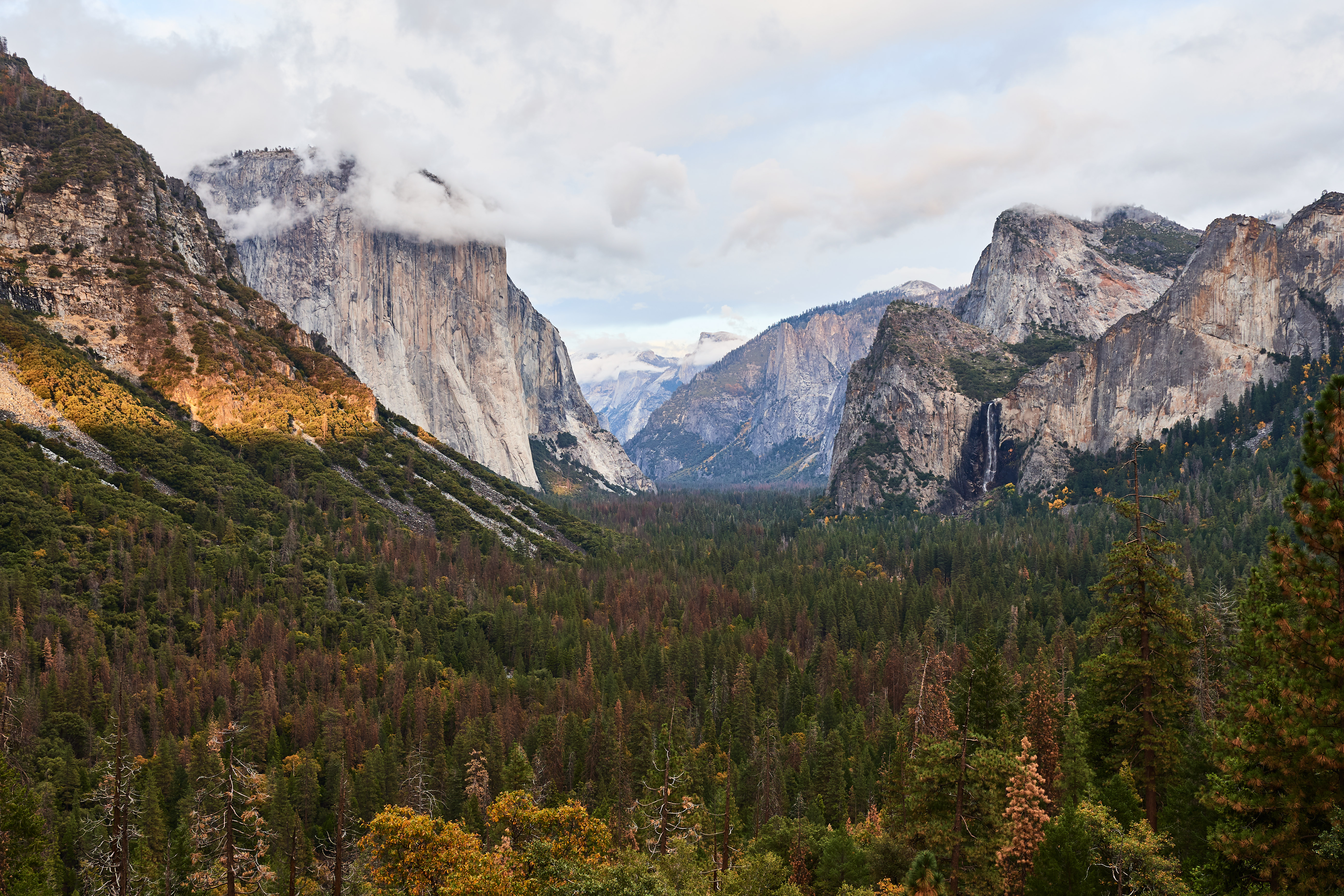 Yosemite valley at sunset from tunnel view in fall 2017.